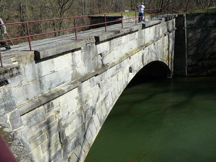 Picture of Licking Creek Aqueduct on the C and O Canal